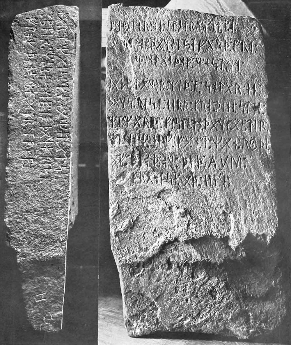 Images of the two carved faces of the Kensington Runestone, from George Flom's short book "The Kensington Rune-Stone : an address" (Illinois State Historical Society, 1910)